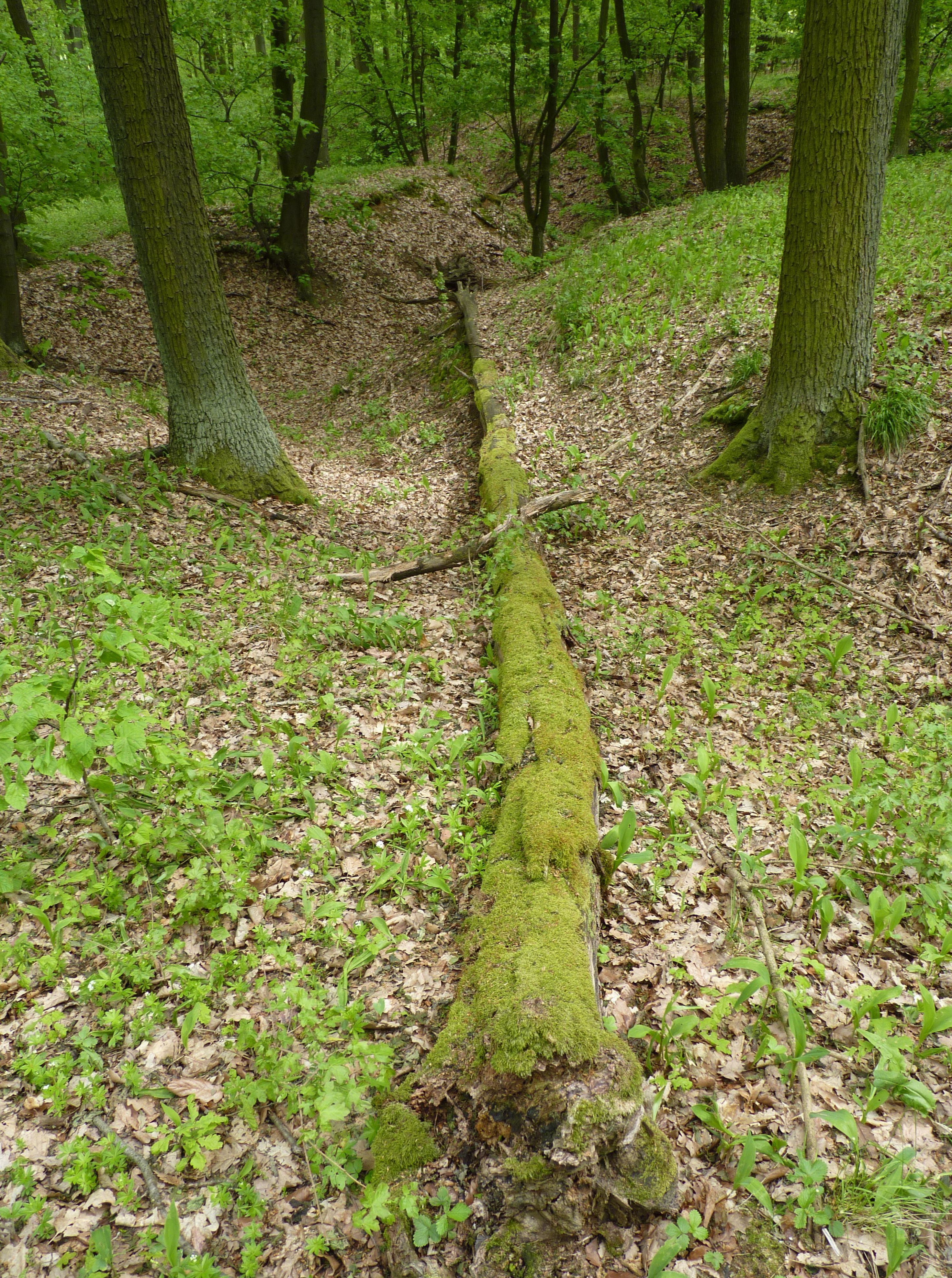 Nature reserve "Bosonožský hájek", Brno-City District, South Moravian Region, Czech republic